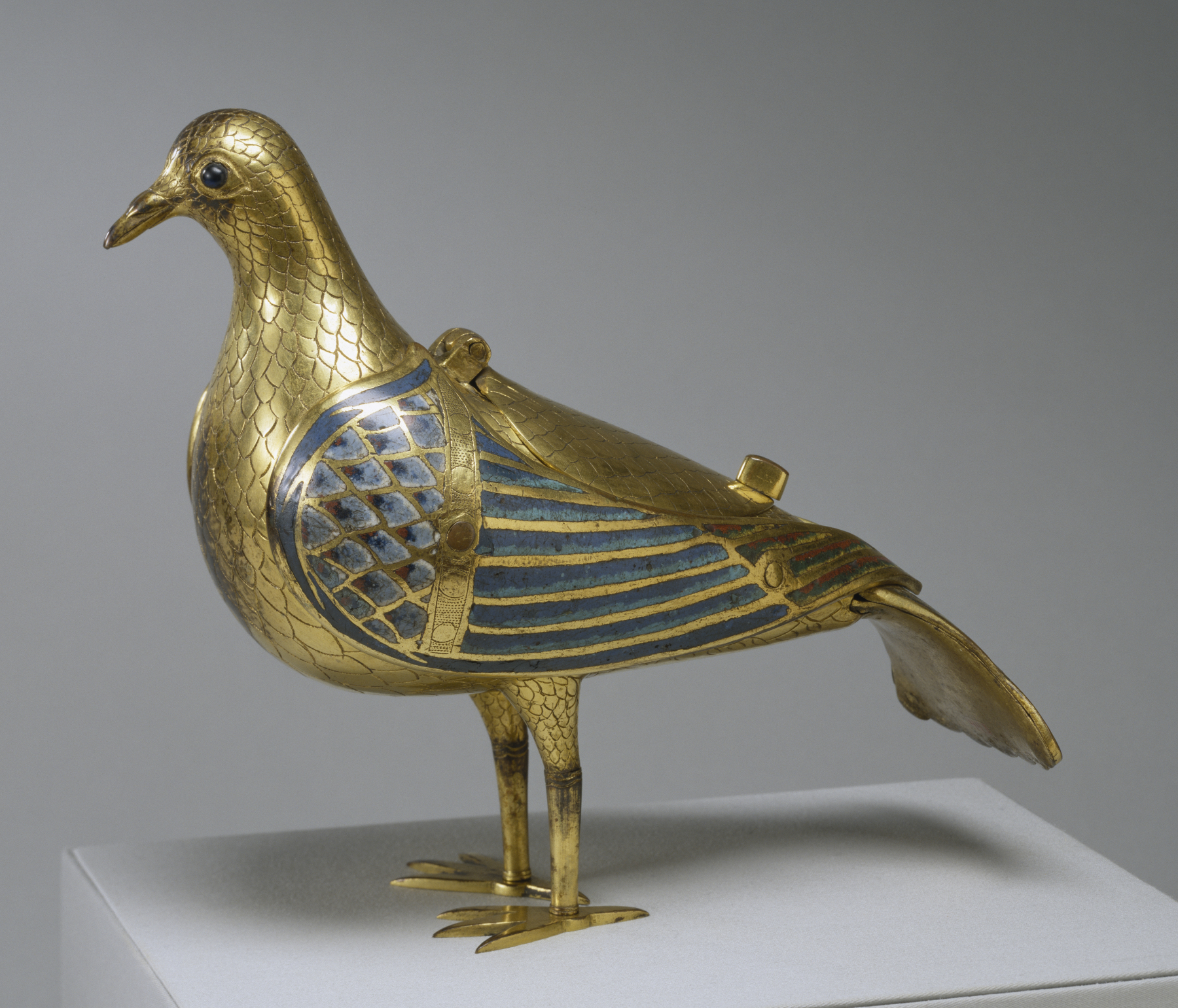 Used for storing communion wafers, doves such as this were suspended above the altar to signify the presence of the Holy Spirit at the Mass. On this fine, colorful example, the sparkling glass eyes and shimmering enamels on the wings and tail highlight the richness of the material of the liturgical vessel. The wafers were stored in a cavity under a hinged lid on the bird's back.